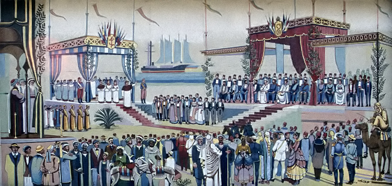 Painting of the inauguration ceremony of the Suez canal, Ismailia, Egypt